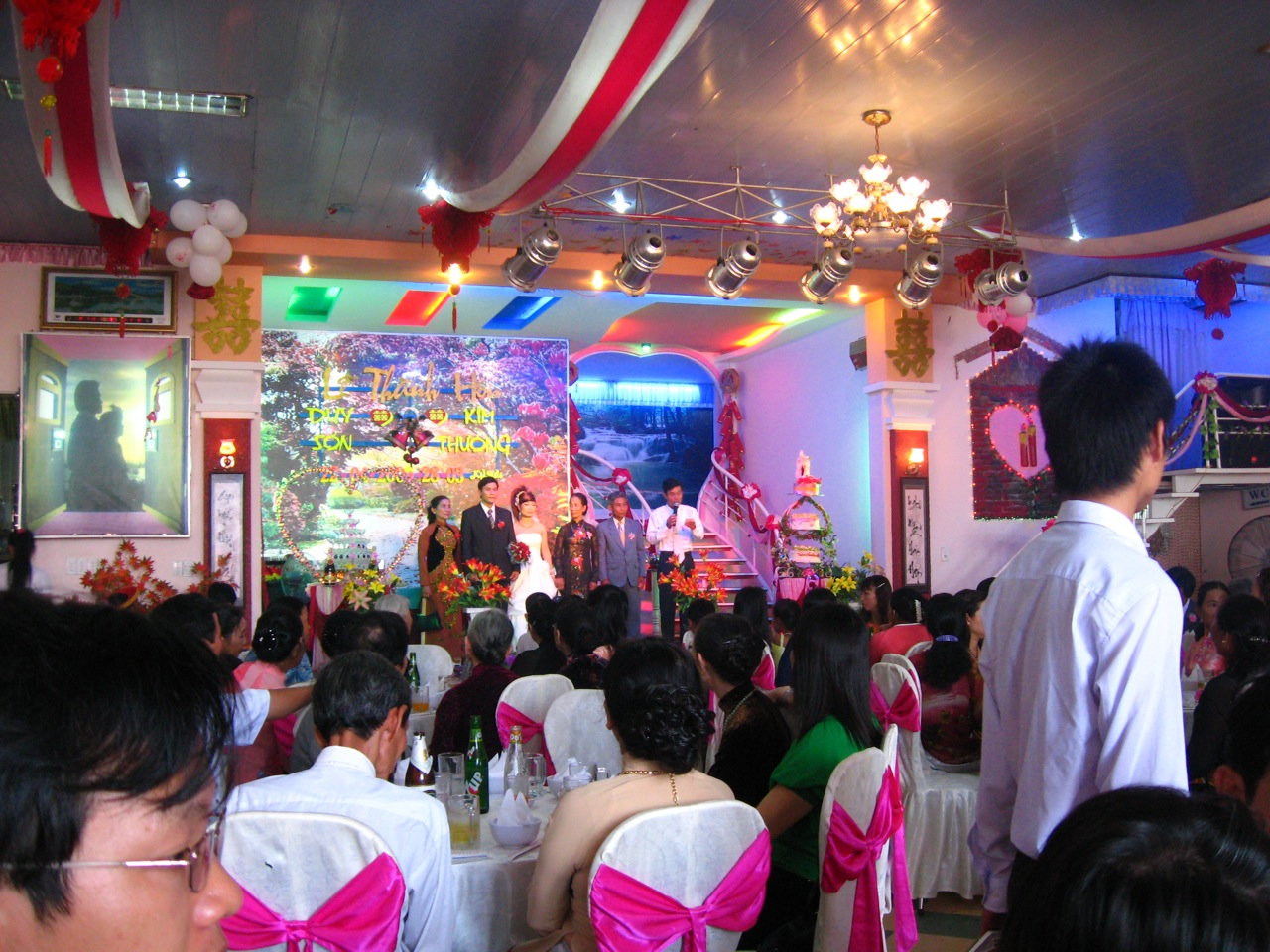 A contemporary Vietnamese wedding reception at a rented hall, complete with MC, decorations, lighting and other special effects. The bride and groom stand center stage, surrounded by their parents. The MC introduces the programme at stage left (right in this picture). Vietnamese wedding ceremonies, which usually involve only the main members of the two families, are often followed by a reception (either on the same day, or later—sometimes weeks or months later) to which the extended family, friends, and co-workers are invited.